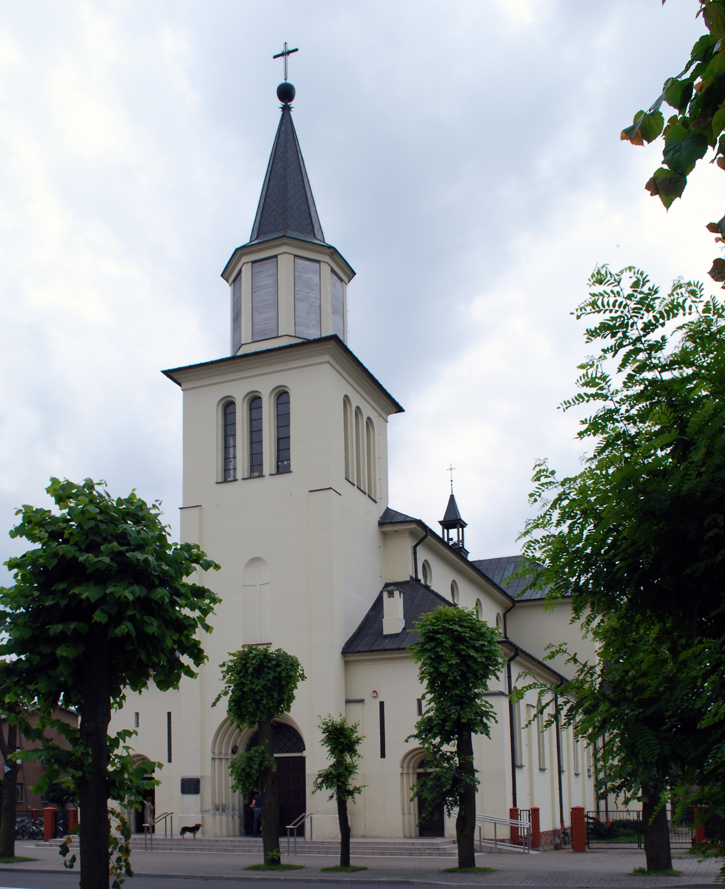 This photo from Podlaskie Voievodeship was taken during Polish Wikiexpedition 2009 set up by Wikimedia Polska Association. The making of this document was supported by Wikimedia Polska. Kosciól Podwyzszenia Krzyza w Hajnówce